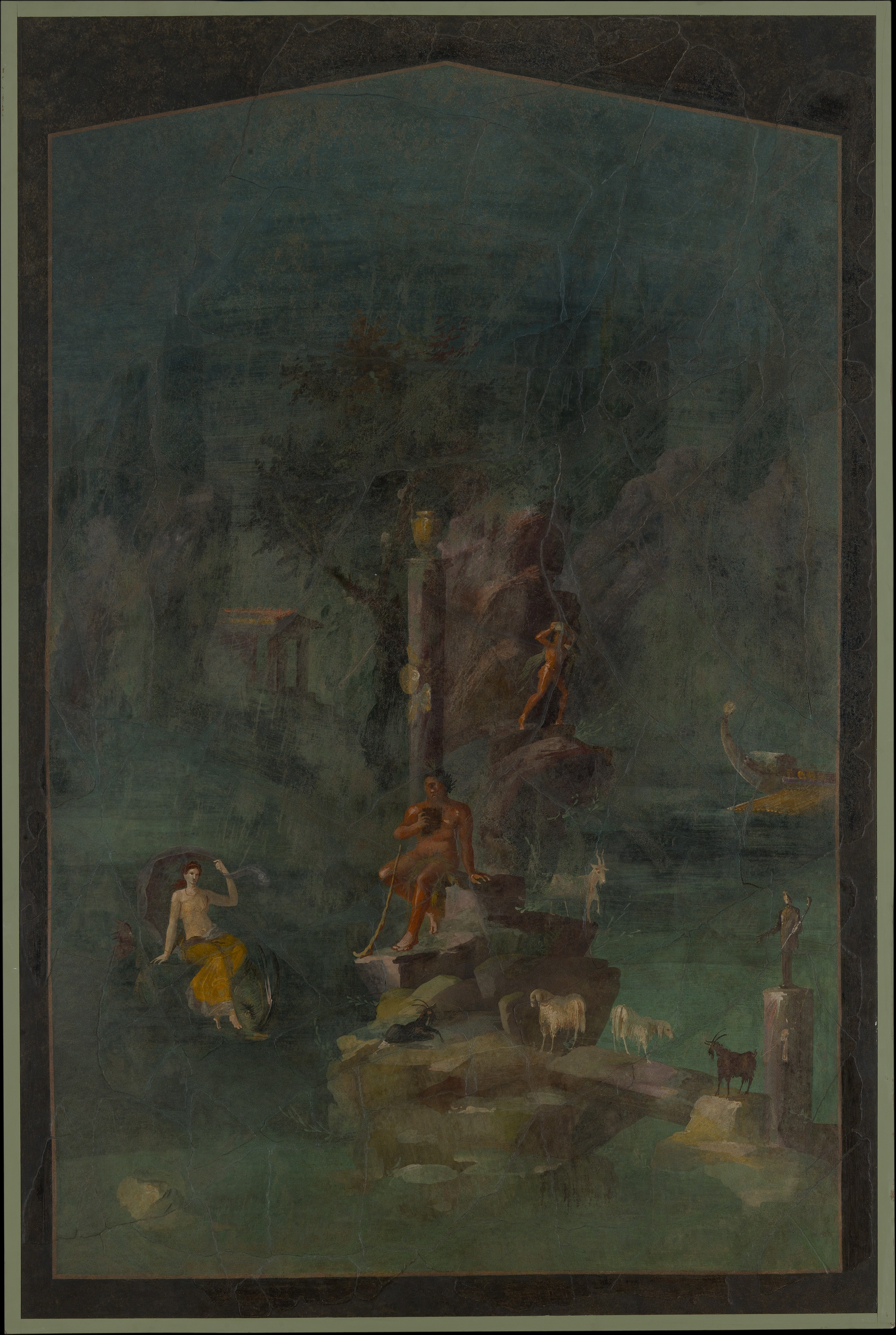 Panel showing a scene of Polyphemus and Galatea. Would have been in the center of the western wall of the Mythological Room, cubiculum 19, in the Villa at Boscotrecase.